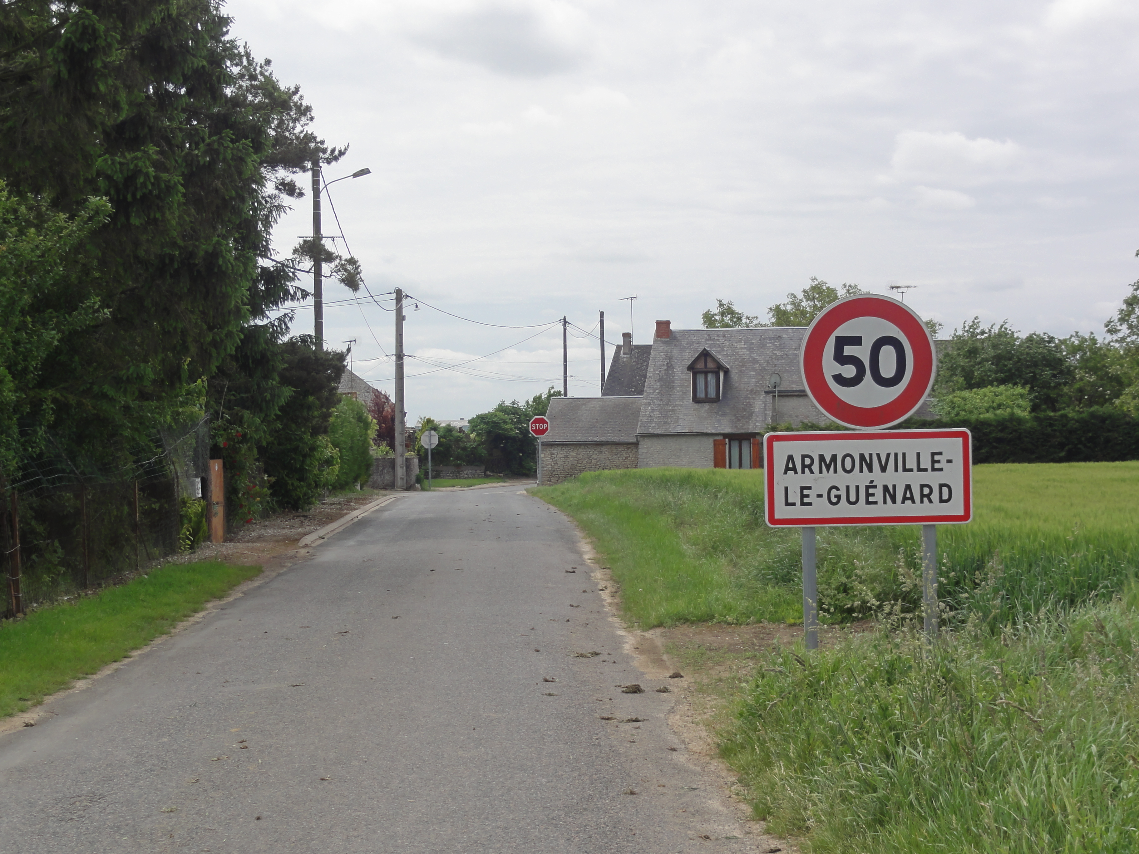 Boisseaux (Loiret) panneau d'Armonville-le-Guénard